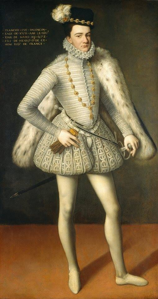 Portrait of François-Hercule de France, duke of Alençon and later of Anjou